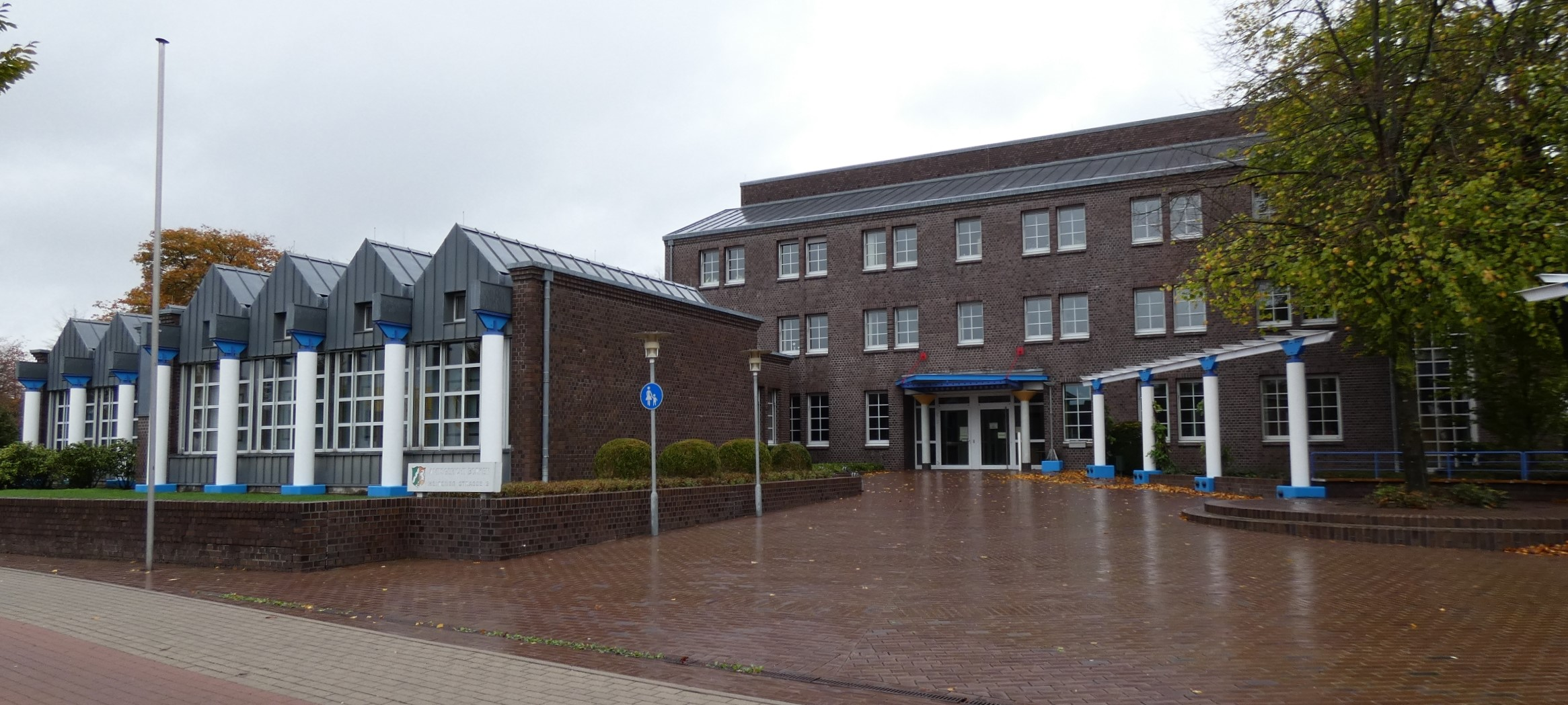 District court, Borken (Westf.)